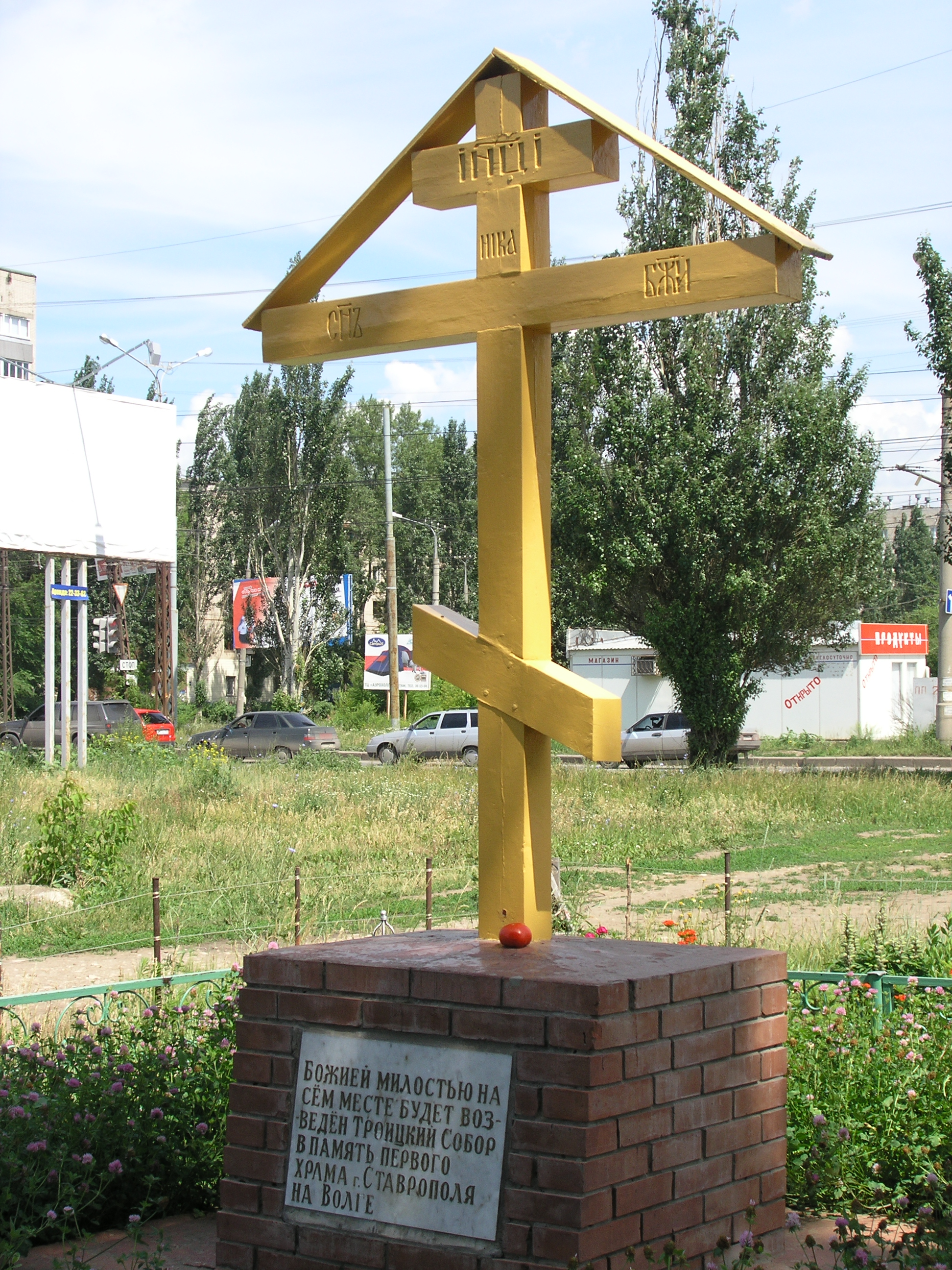 Place to build Troizky Sobor, Togliatty, Russia